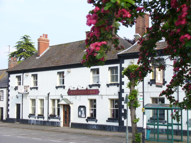 The Barrington Arms public house, Shrivenham, Oxfordshire (formerly Berkshire). The pub is named after a former Lord of the Manor and is on the south side of the High Street.